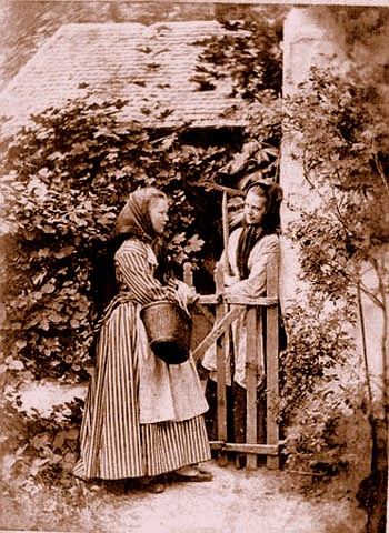 Marie Louise Thomsen Danish photographer died 1907 say 1890 ???